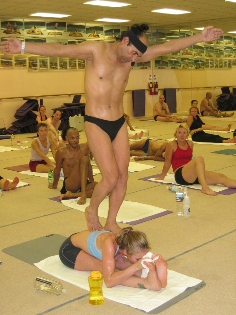 Please don't try this at home. Paschimottanasana and a little help from Bikram himself pretending to be Jesus Christ on the cross.